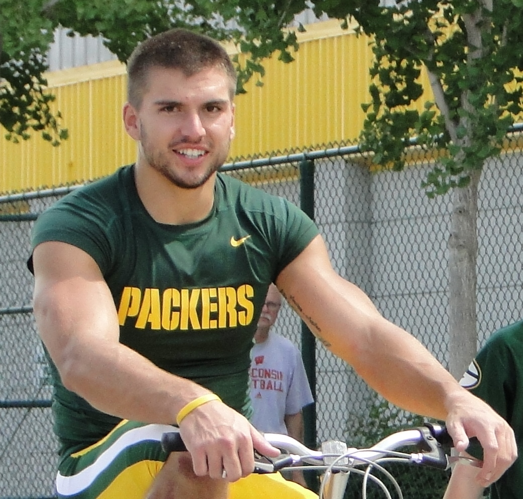 Green Bay Packers wide receiver Jeff Janis rides a bicycle to training camp.